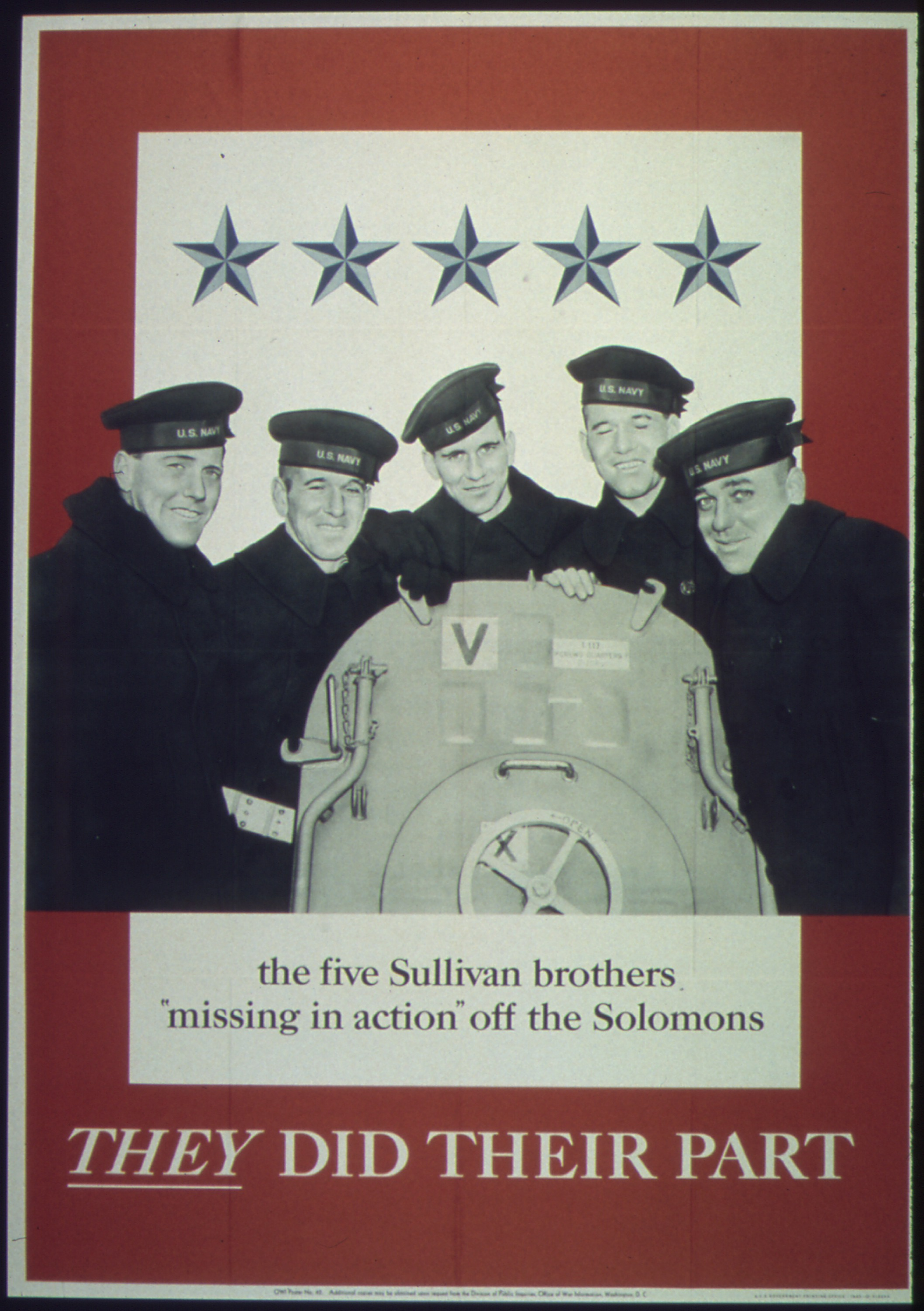 General notes: Use War and Conflict Number 763 when ordering a reproduction or requesting information about this image.